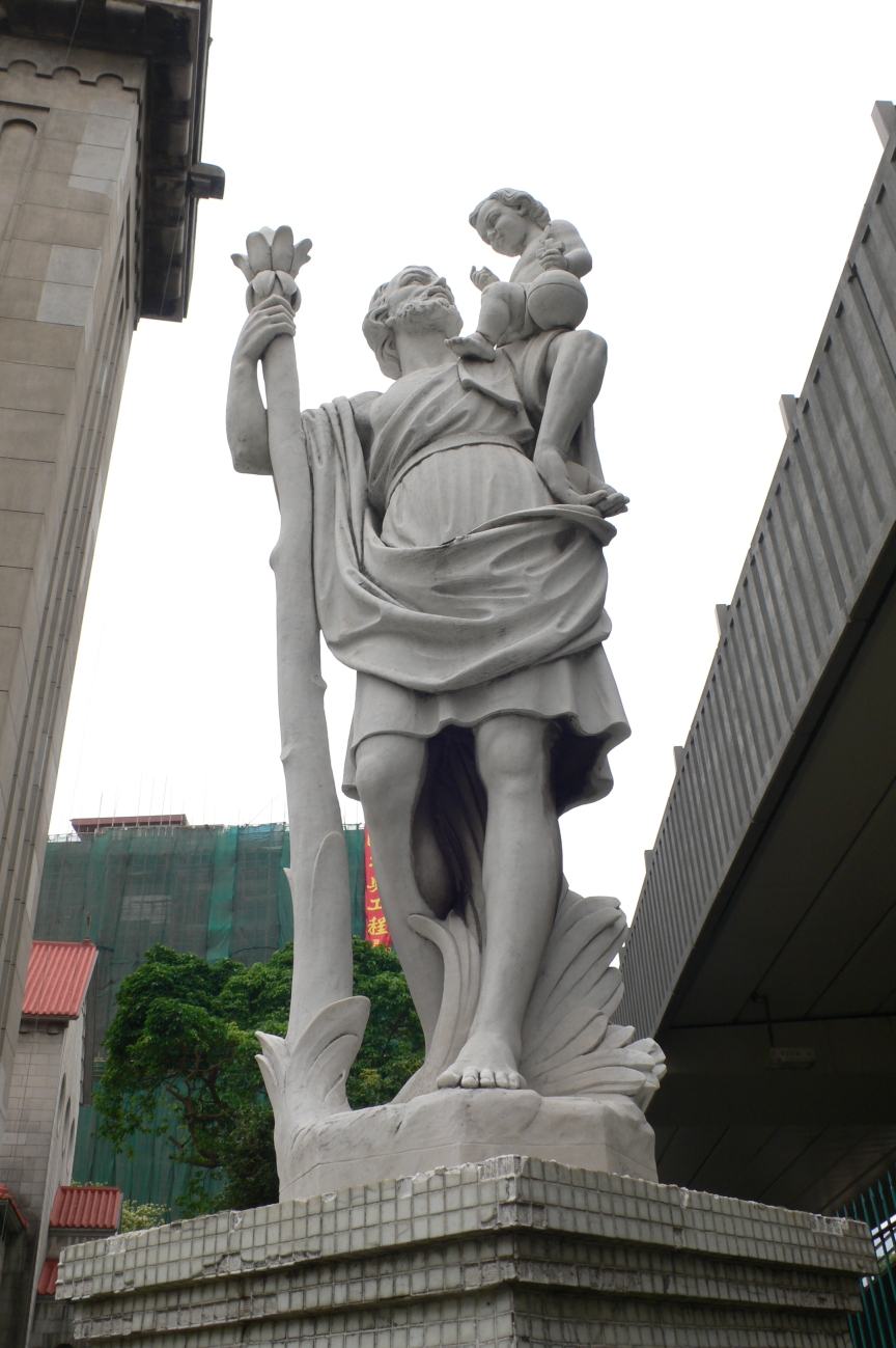 Statue of St Christopher in St. Theresa's Church, Hong Kong